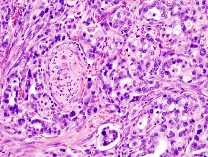 Histopathogic image of pancreatic adenocarcinoma arising in the pancreas head region. H & E stain.